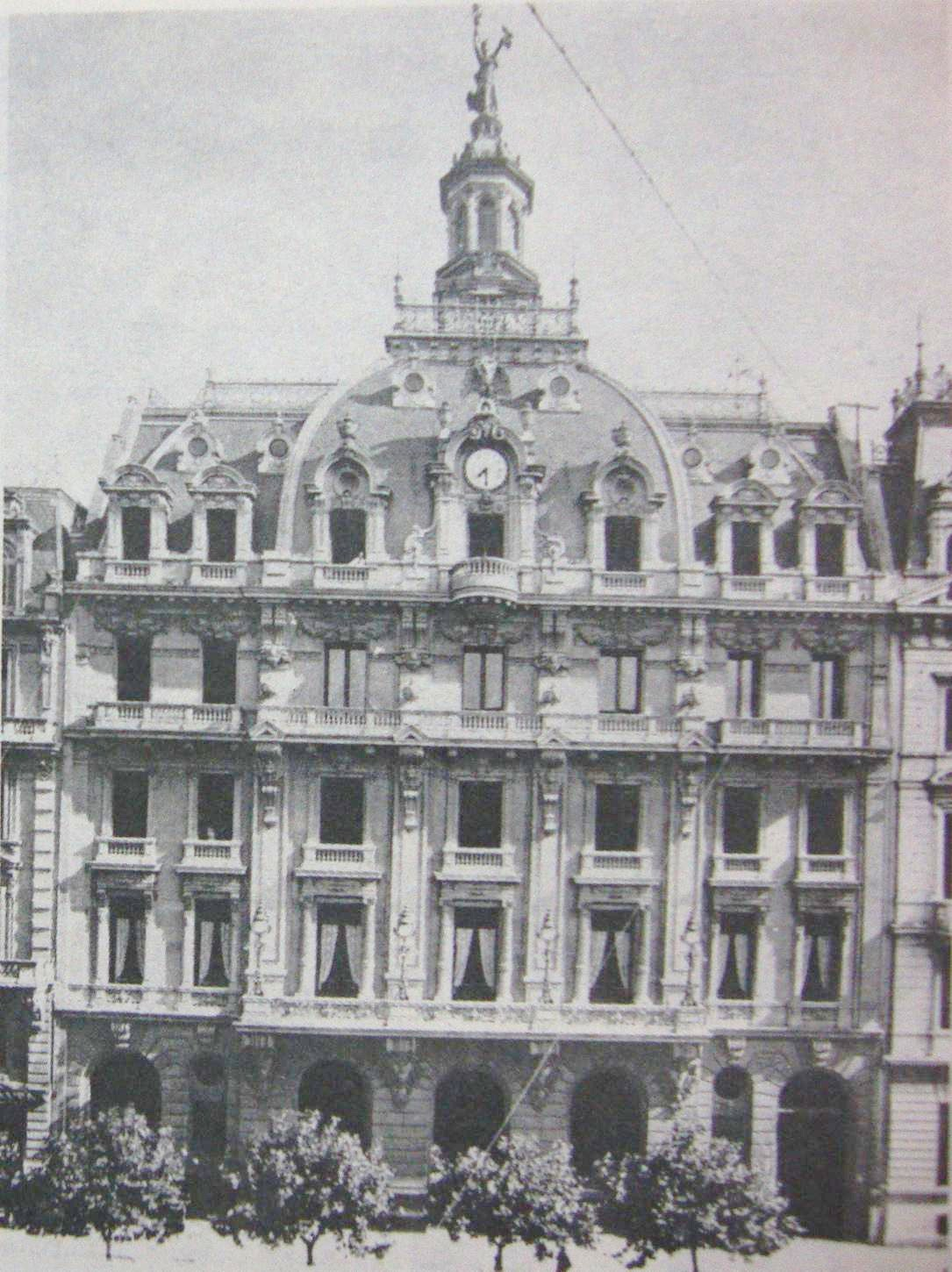 Front view of the La Prensa newspaper building, sited on Avenida de Mayo 585, Buenos Aires. Designed by engineers Gainza and Agote, it was built in Beaux-arts style. Currently is the seat of the House of Culture, GCBA.